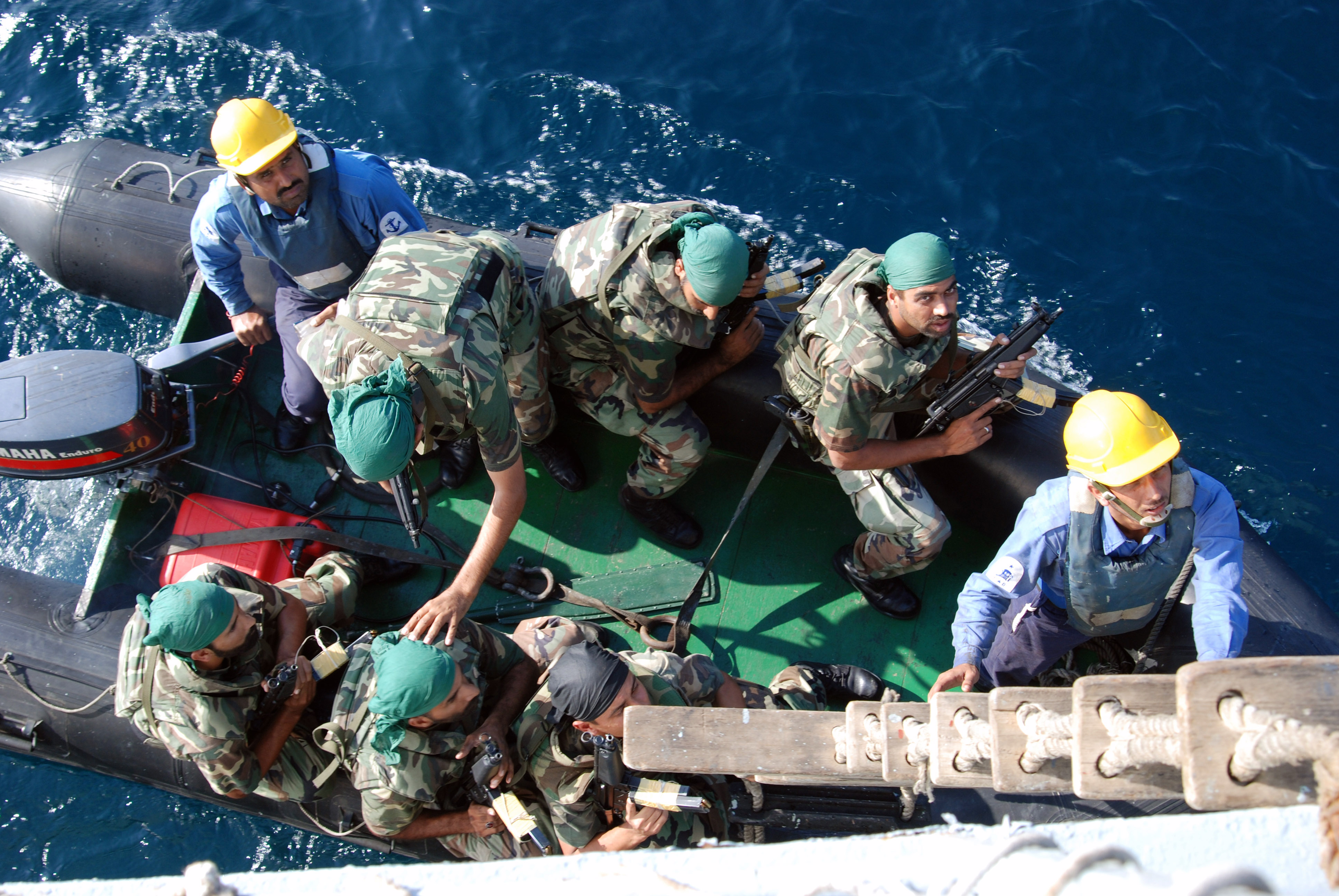 ARABIAN SEA (Nov. 25, 2007) Members of the Pakistan Navy Special Service Group board a rigid hull inflatable board launched from Pakistan Navy Ship (PNS) Babur while underway in the Arabian Sea. Babur is deployed to the Central Command area of responsibility as part of Combined Task Force 150. CTF 150 is responsible for maritime security operations in the Gulf of Oman, Gulf of Aden, Red Sea, North Arabian Sea and parts of the Indian Ocean. U.S. Navy photo by Mass Communication Specialist 2nd Class Michael Zeltakalns (Released)